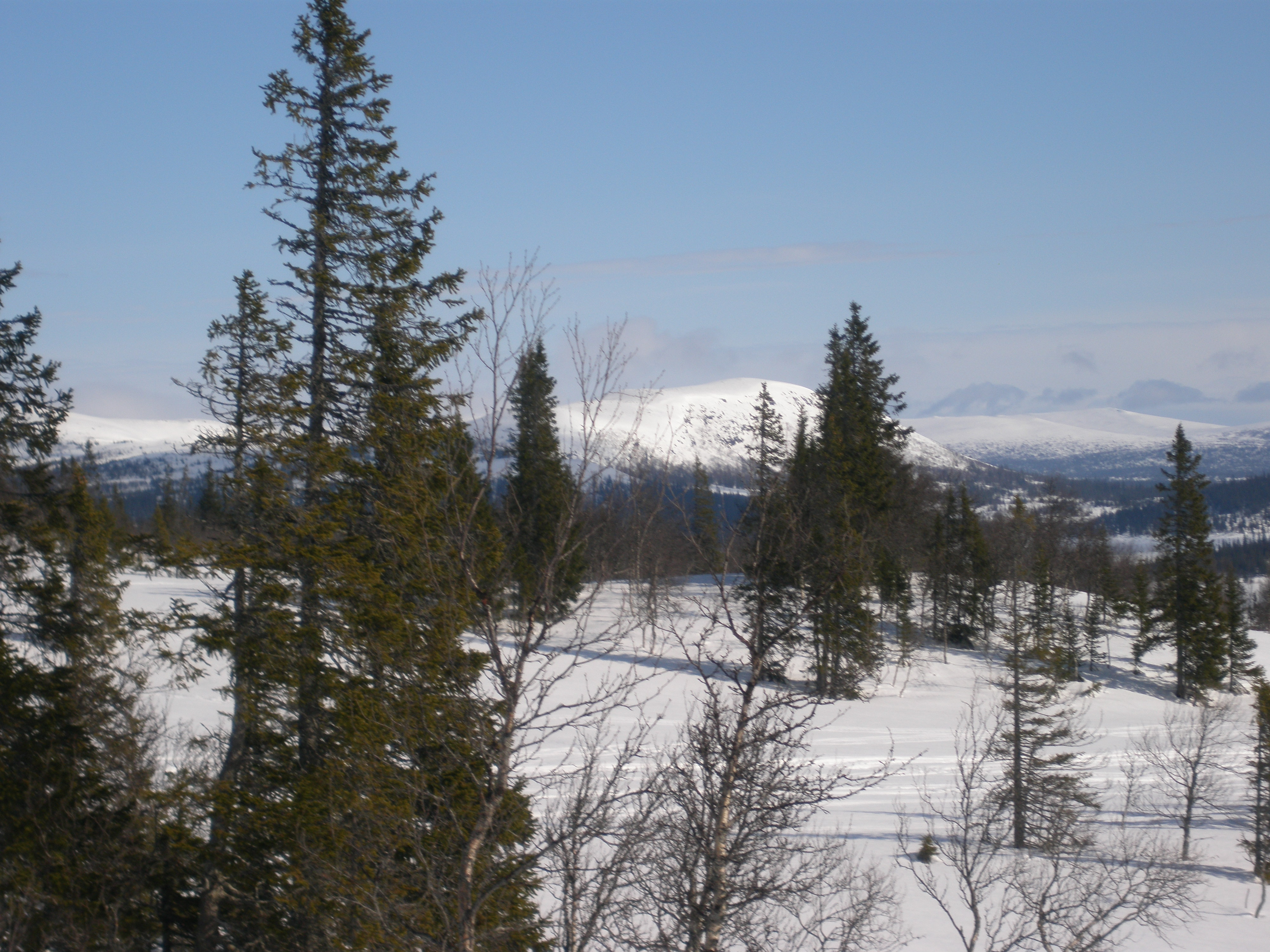 Oldklumpen in the Oldfjällen mountains, Offerdal, Krokoms kommun, Jämtland, Sweden.